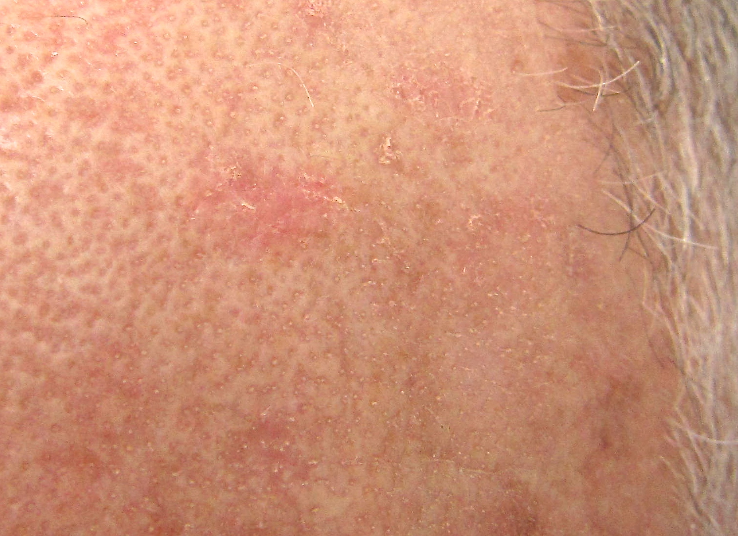 Actinic keratoses are precancerous lesions common on sun-exposed areas of the skin. They can assume many different appearances, but this image shows a close-up of a very common presentation of an AK.